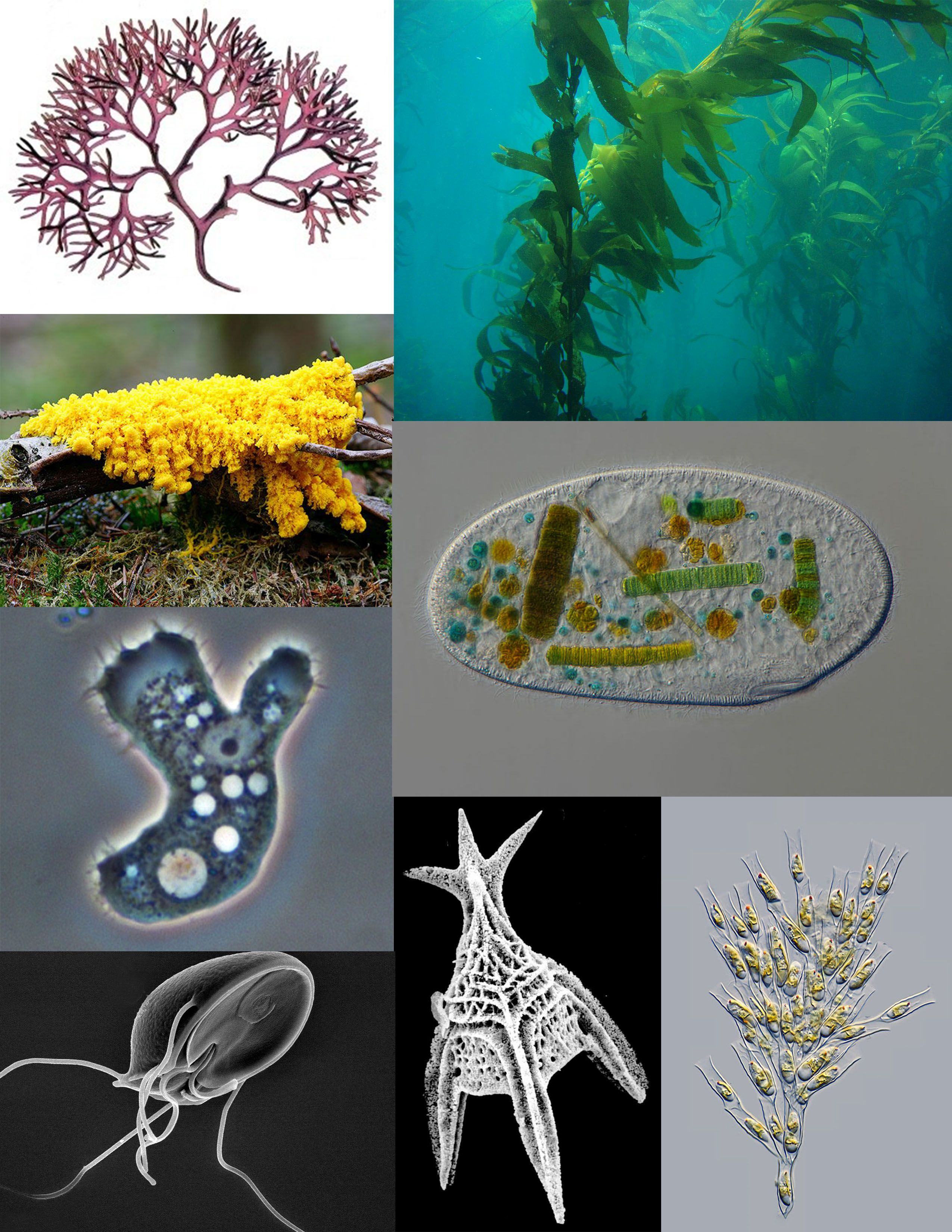 A sampling of protists, composed of images from Wikimedia Commons. Clockwise from top left: red algae (Chondrus crispus); brown algae (Giant Kelp); ciliate (Frontonia); golden algae (Dinobryon); Foraminifera (Radiolaria); parasitic flagellate (Giardia muris); pathogenic amoeba (Acanthamoeba); amoebozoan slime mold (Fuligo septica)